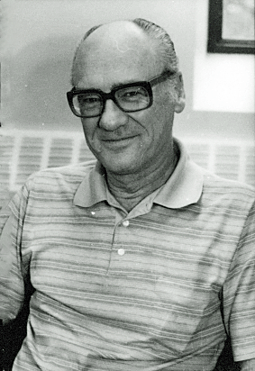 Prof. Turrell Wylie (1979). Photo courtesy of University of Washington Department of Asian Languages and Literature